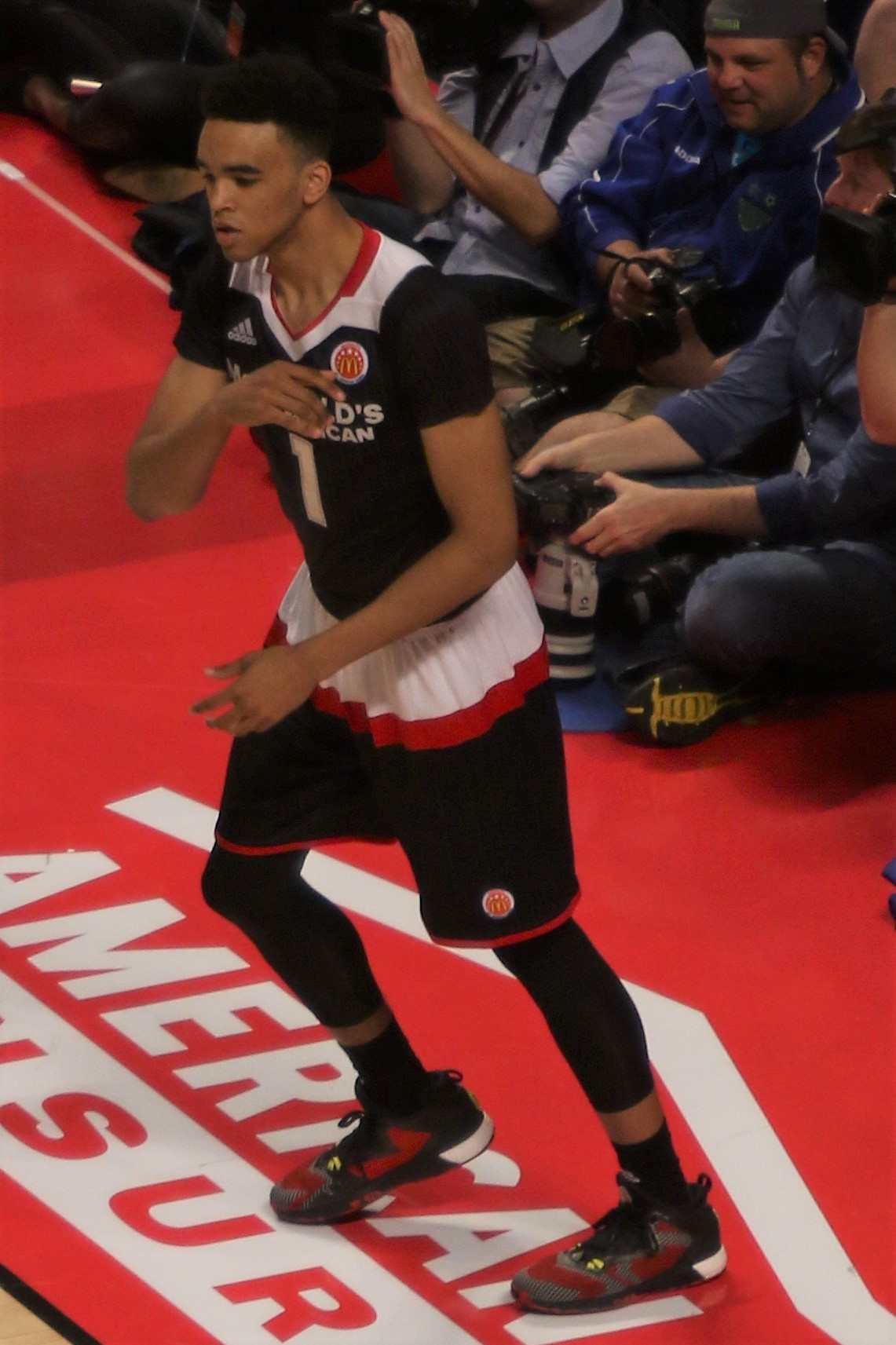 Sacha Killeya-Jones at the w:2016 McDonald's All-American Boys Game